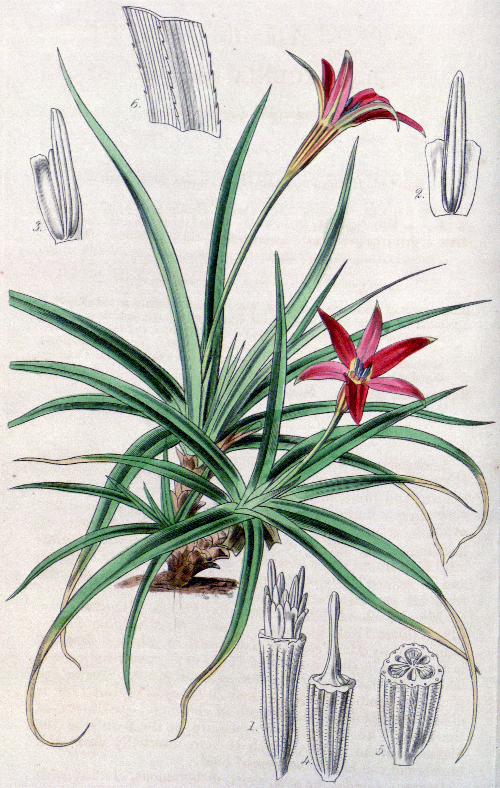 Barbacenia squamata